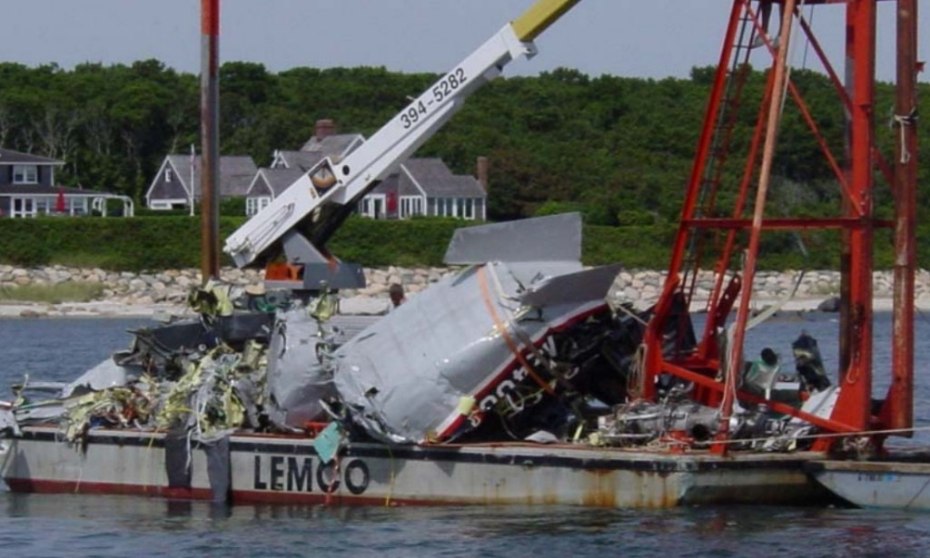 Wreckage of Colgan B1900D N240CJ Being Recovered